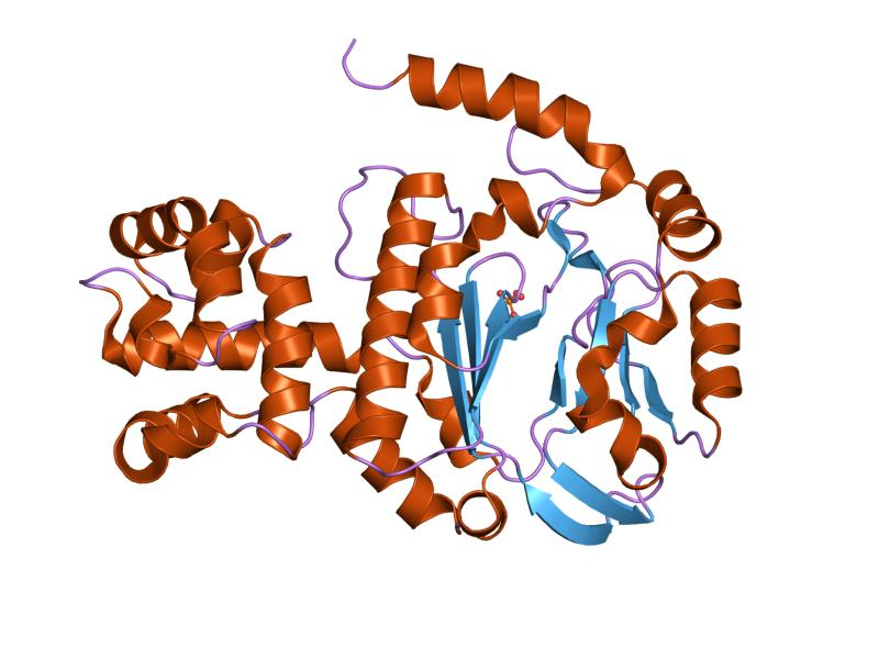 Cartoon representation of the molecular structure of protein registered with 1v33 code.